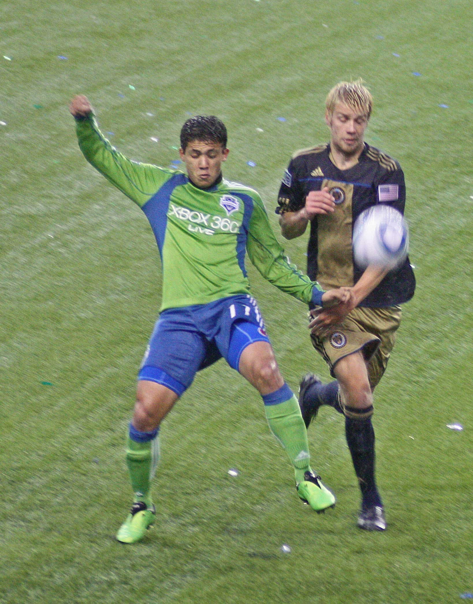 Fredy Montero of the Seattle Sounders FC versus Toni Ståhl of the Philadelphia Union